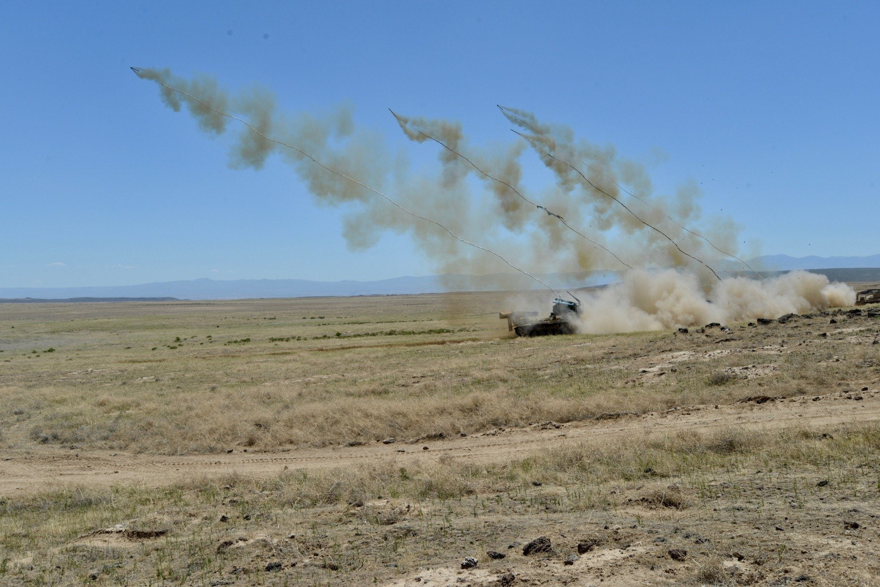 Soldiers from the Idaho Army National Guard's 116th Engineer Battalion and the U.S. Army Reserve's 321st Engineer Battalion conducted a live-fire M58 Mine Clearing Line Charge (MICLIC) range June 13, 2018, at the Orchard Combat Training Center, Boise, Idaho